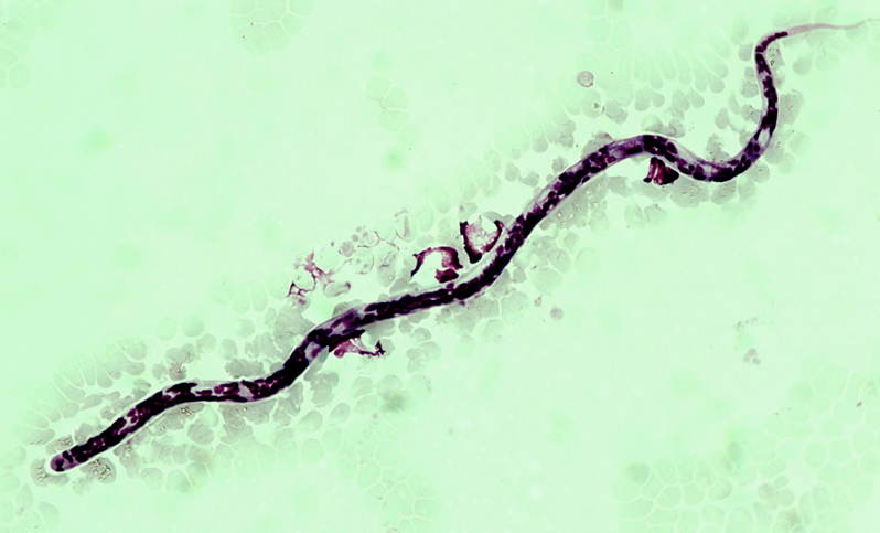 Nematode pathogen transmitted by insect to domestic animals